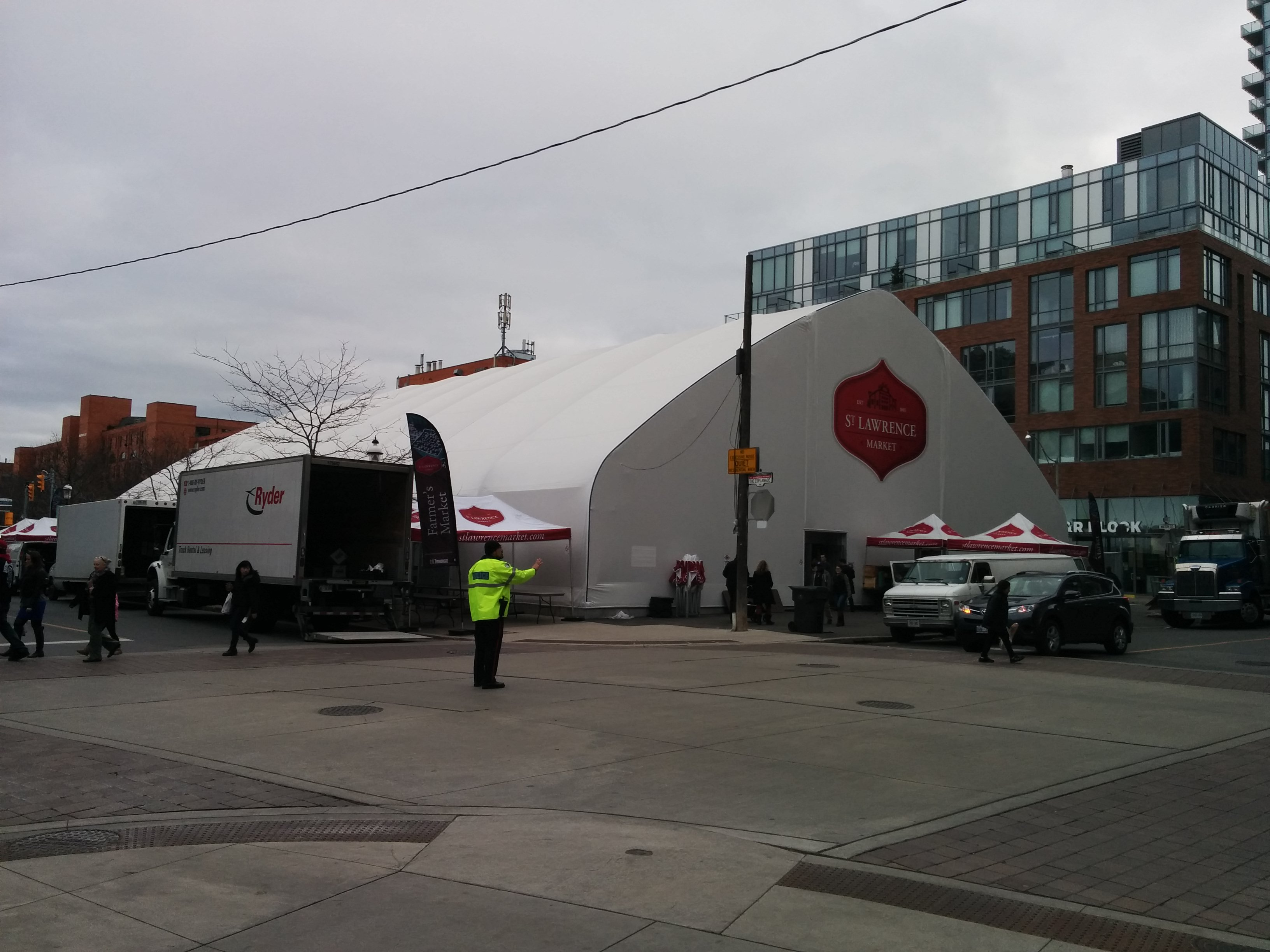 View of temporary site of farmer's market.